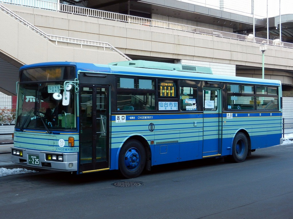 Sendai city bus Nissan Diesel UA (NE-UA4E0LAN,CNG bus)